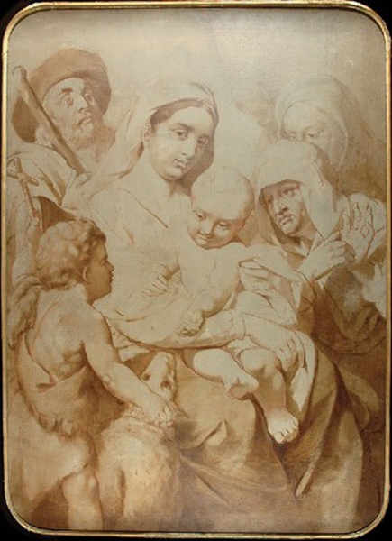 Holy Family